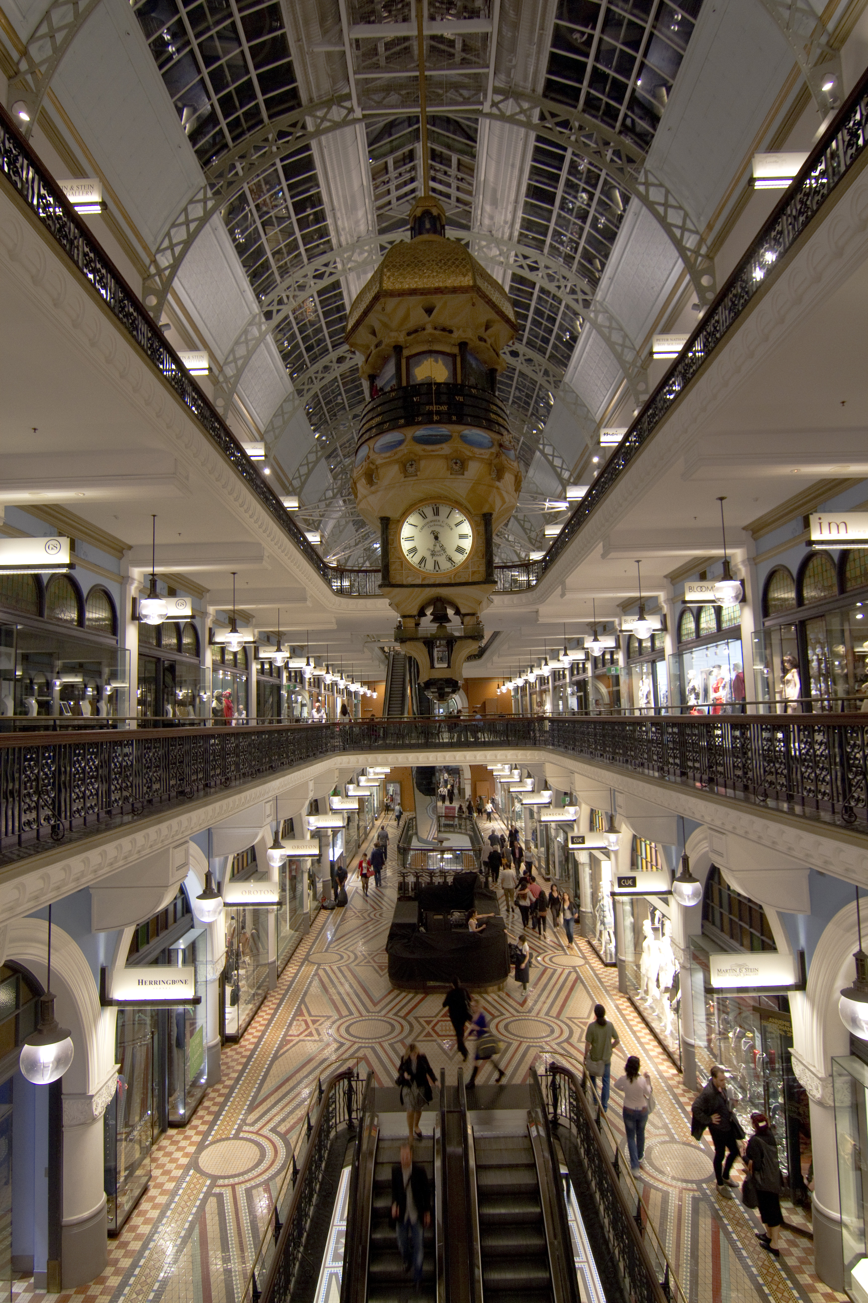 QVB, Sydney